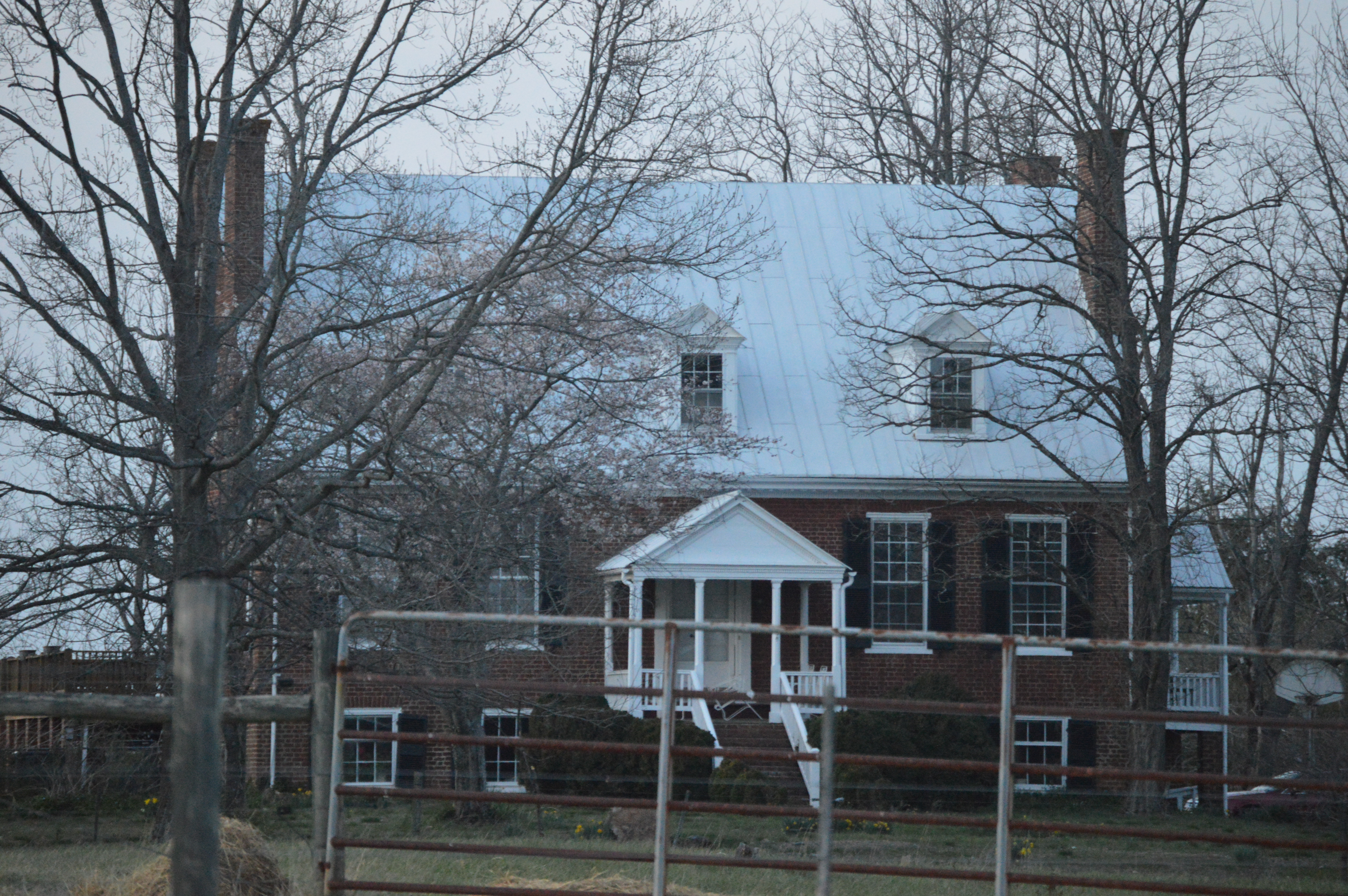 Front of Shady Grove, located on Mollies Creek Road just northeast of Gladys in Campbell County, Virginia, United States. Built in 1825, it is listed on the National Register of Historic Places.